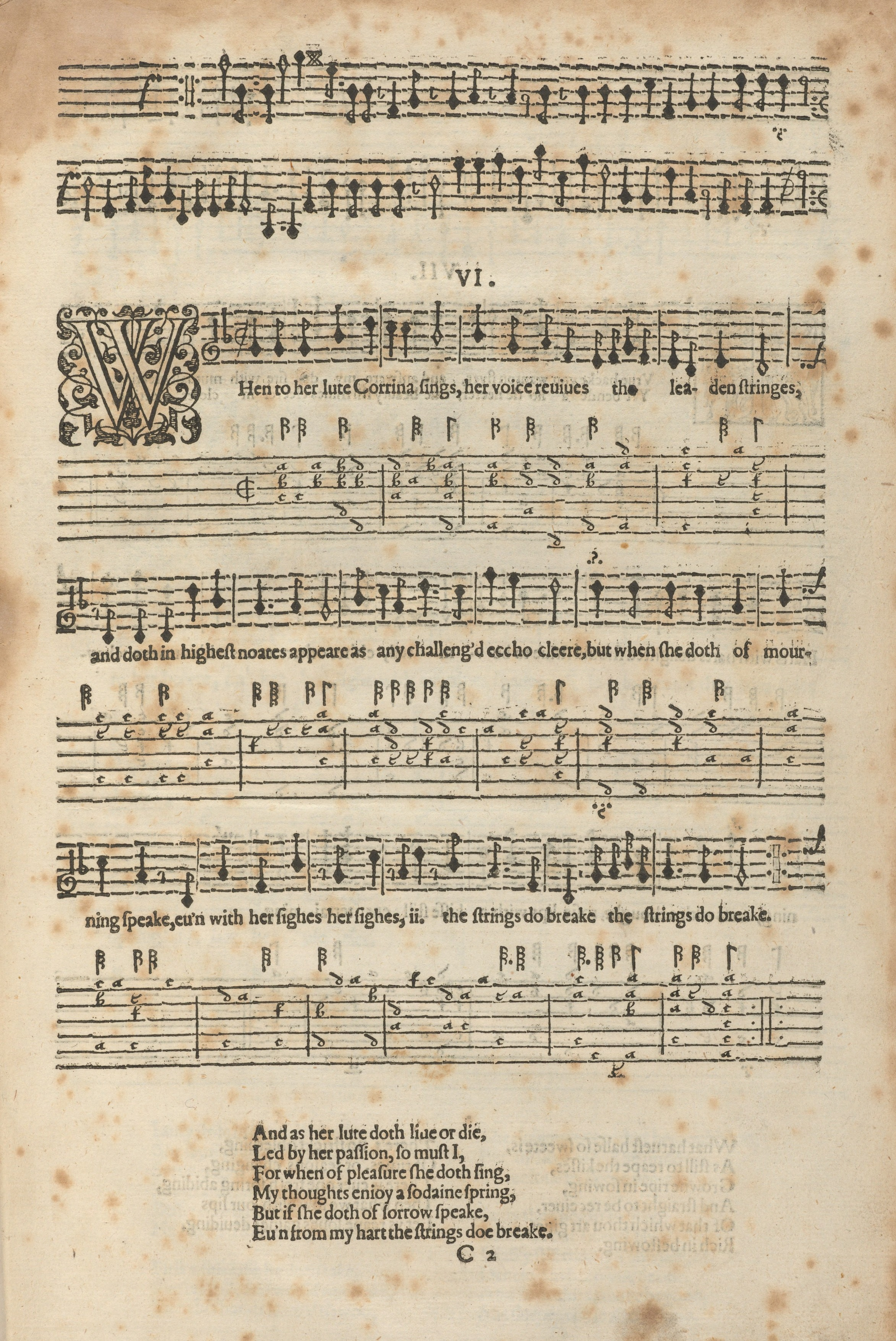 Sheet music page from A booke of ayres, set foorth to be song to the lute, orpherian, and base violl, by Philip Rosseter (1568?-1623), printed in London, 1601. STC 21332, Houghton Library, Harvard University